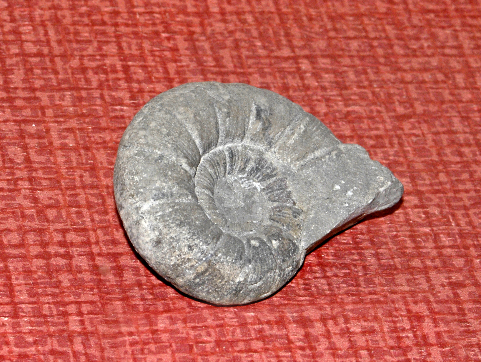 Fossil shell of Spitidiscus species from Alpes-de-Haute-Provence, on display at Gallery of Paleontology and Comparative Anatomy, Paris.